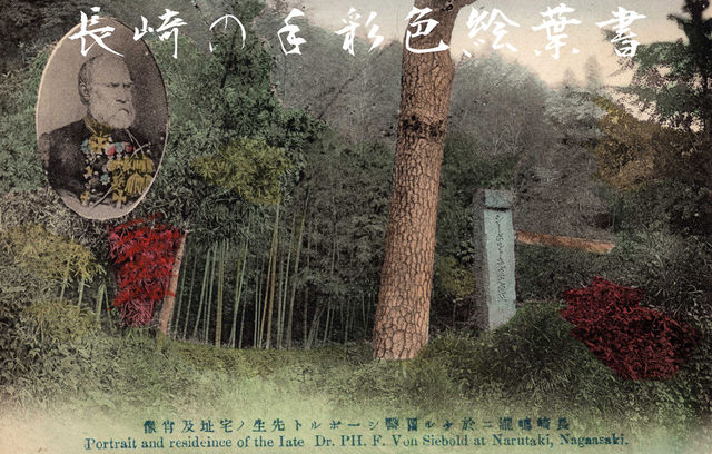 Japanese hand tinted postcard with a portrait of and the site of the residence of Dr. Philipp F. von Siebold at Narutaki, Nagasaki